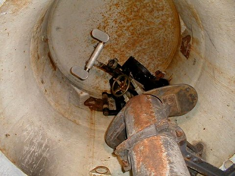 Twining of machine-guns under JM bell